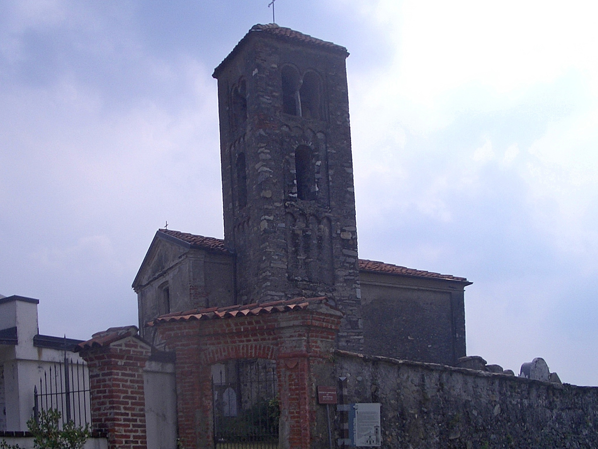 Vialfrè, San Pietro church (the romanesque bell tower was buil in XI century)